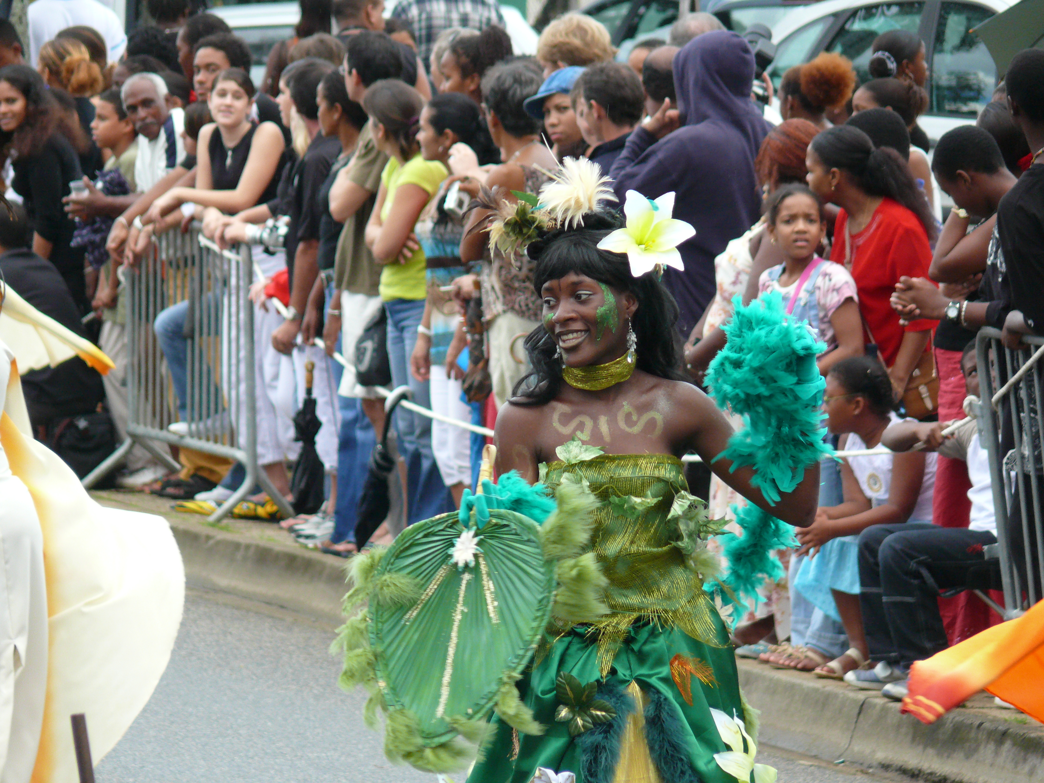 Young Creole woman at Kourou's Carnival parade, 2007.